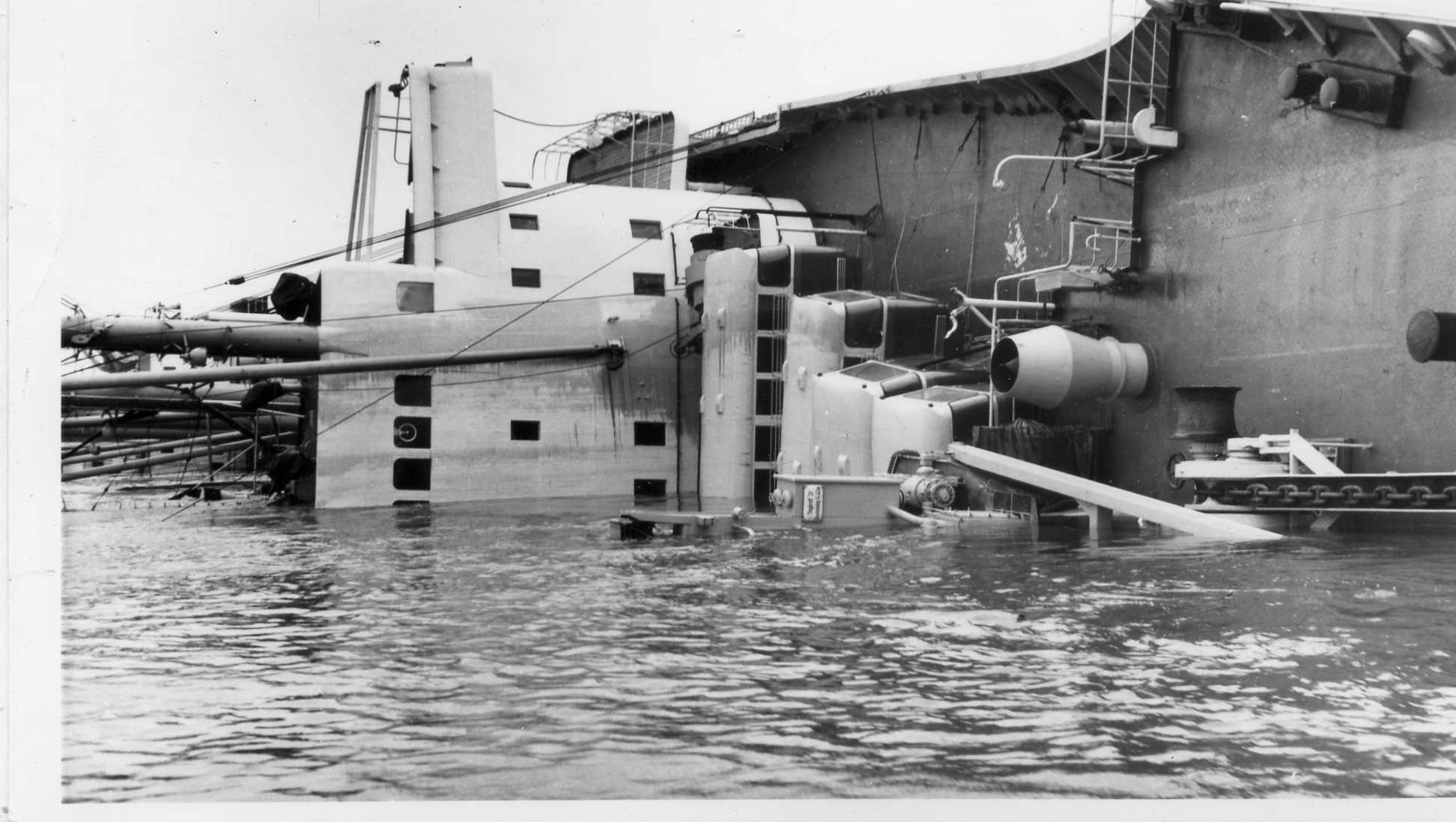 Photos (need re-scanning) of the wrecked MV Magdeburg of the GDR in the Thames. Purchased from Germany, with the stamp of a photographic studio (since disappeared) in Gravesend, Kent. These may have been commissioned by the GDR authorities and I think they ended up in the naval academy in Warnemuende. On the deck may be seen Leyland Tiger Worldmasters bound for Havana. Photographer was E.John Wells Ltd of 15 Parrock Street, Gravesend. Both premises and firm have vanished. More information about the event and its repercussions is found under my original 1965 photo, with my Instamatic 50 camera more photos here and here